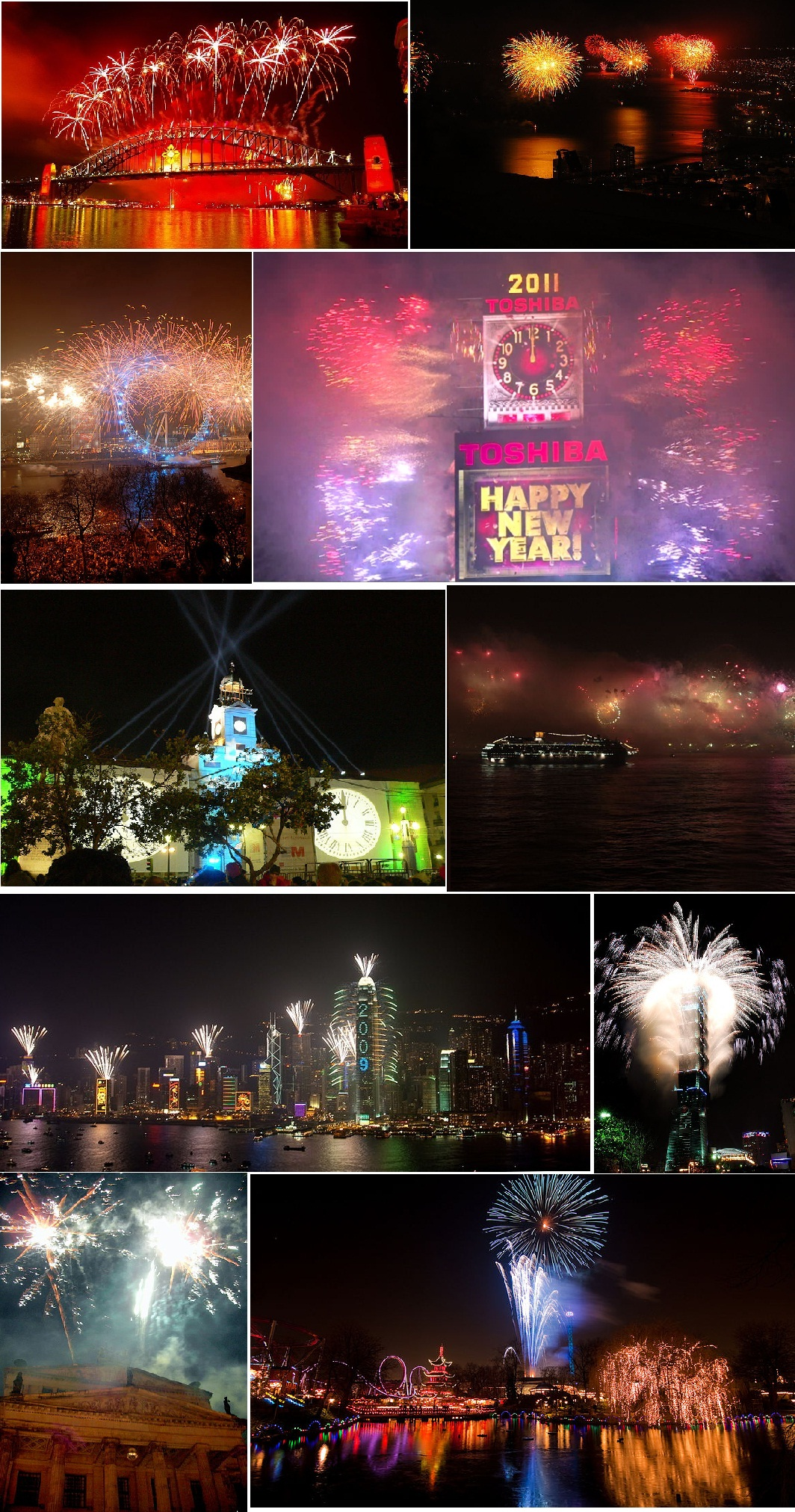 New Year celebrations collage